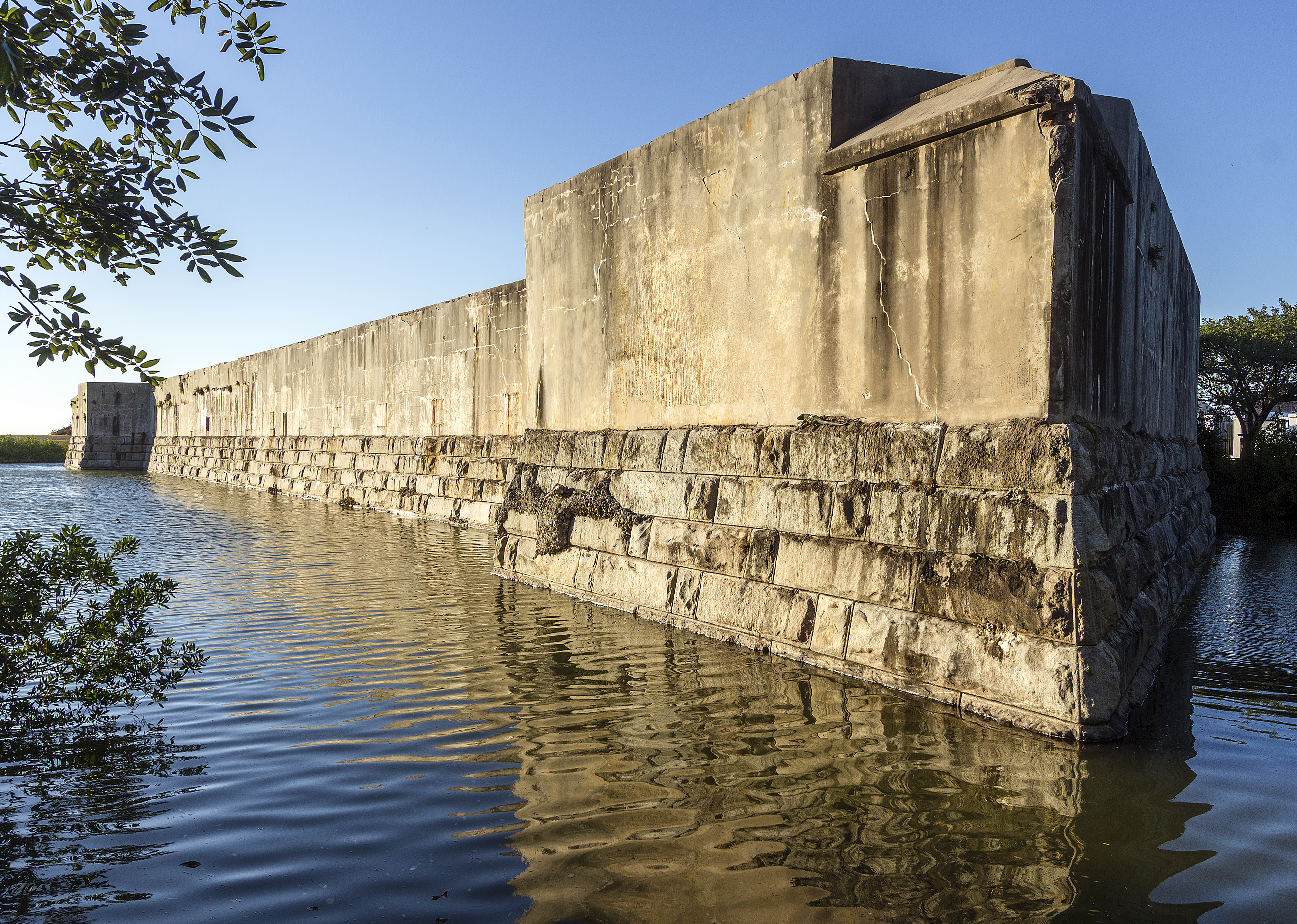 Fort Zachary Taylor, Fort Zachary Taylor, Key West, Florida, USA. Note the iguanas on the lower stone courses.